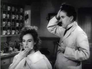 Cropped screenshot of Charlie Chaplin and Paulette Goddard from the film The Great Dictator (1940).